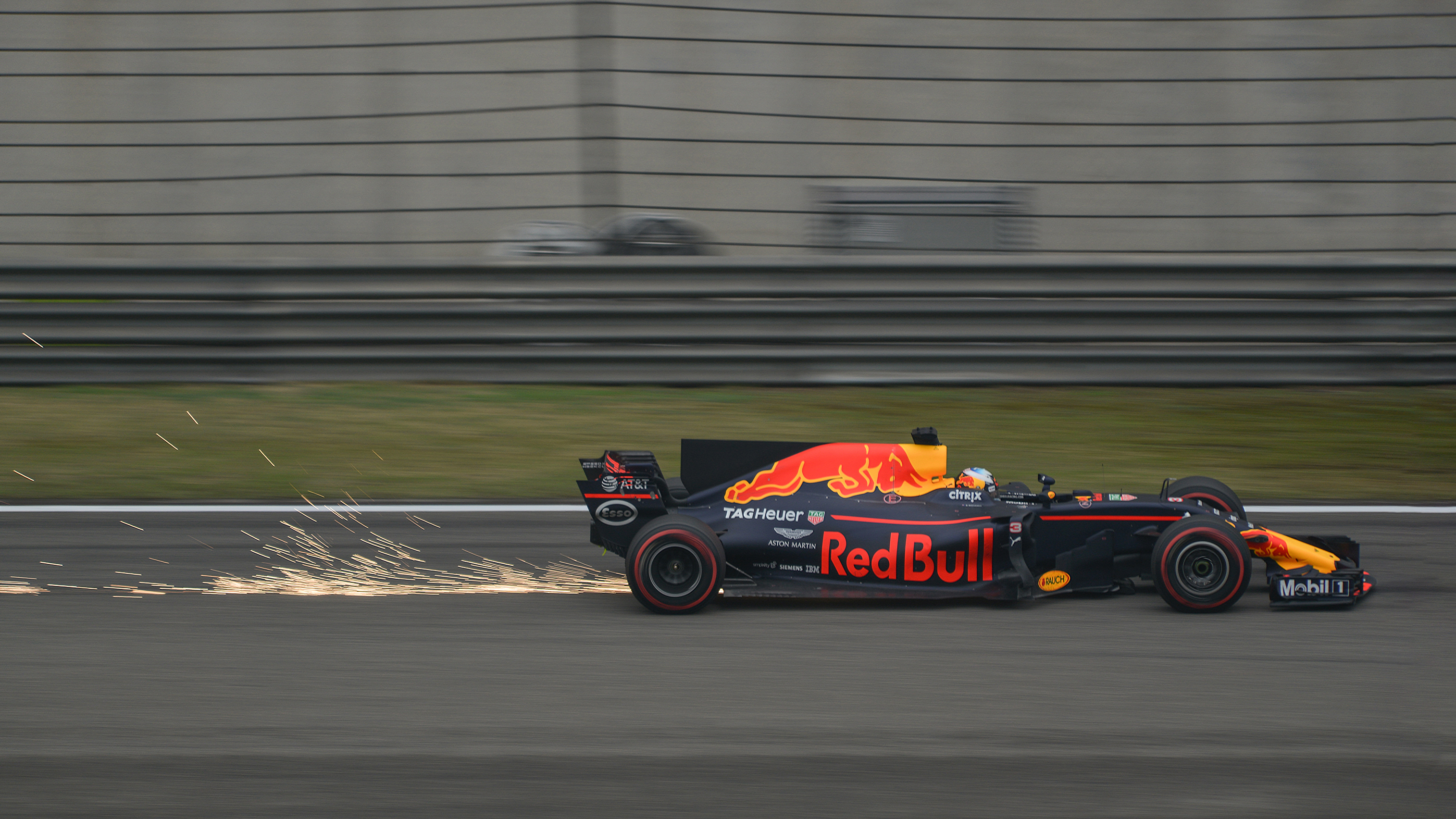 Red Bull Racing RB13